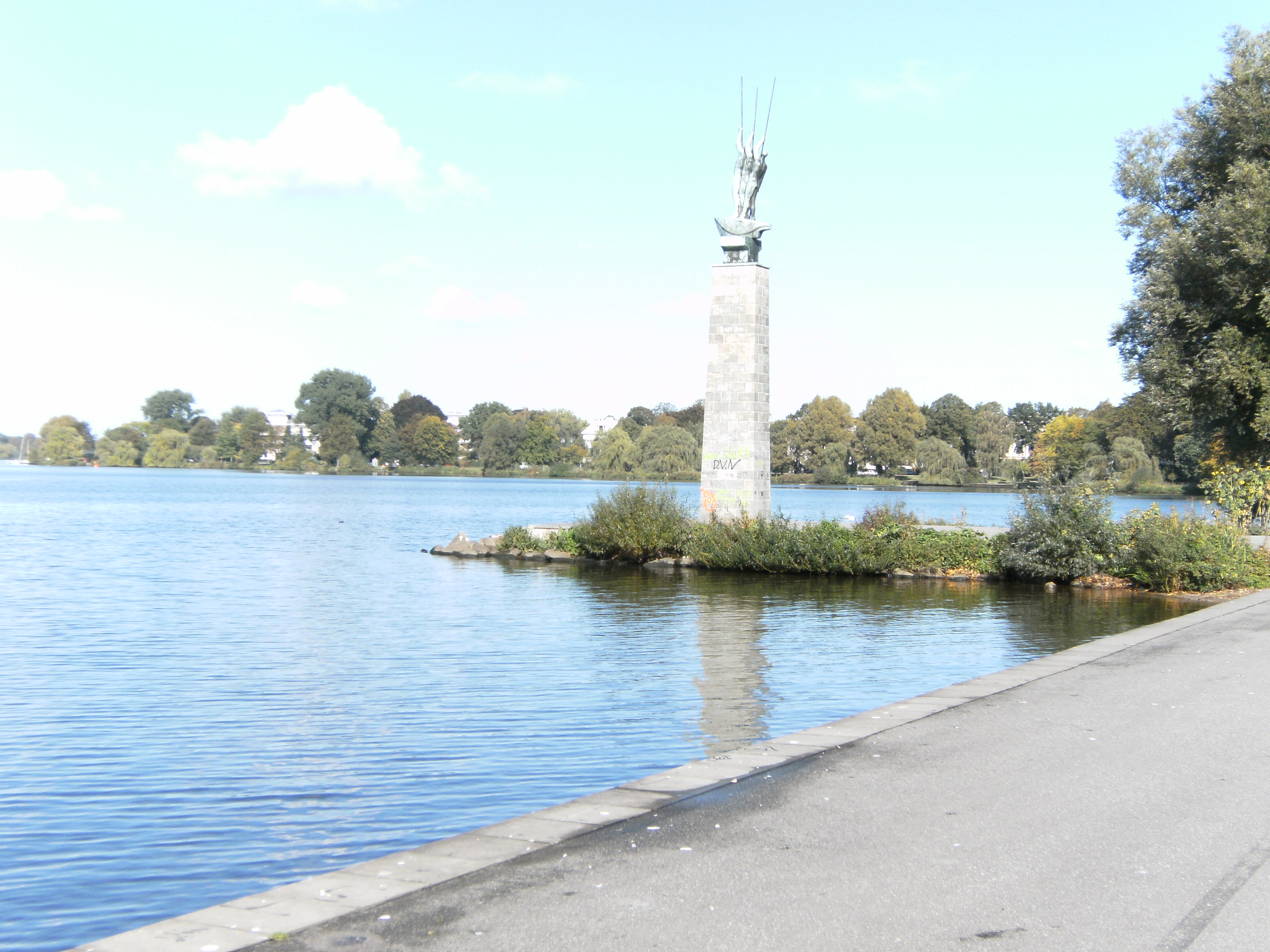 Sculpture by Edwin Scharff at the Aussenalster in Hamburg. Title: Three men in a boat (in